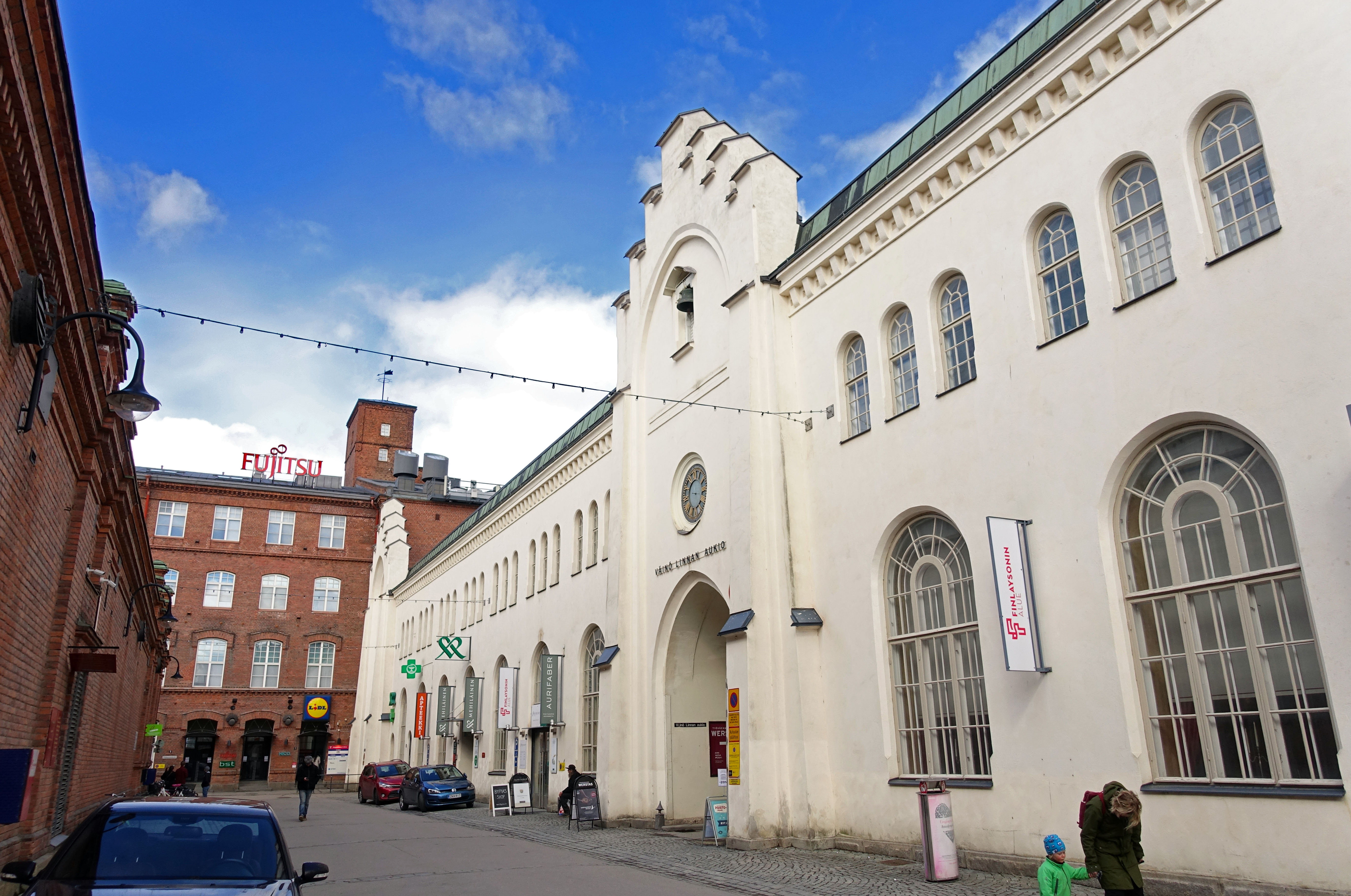 The street Itäinenkatu in Finlayson area, Tampere.